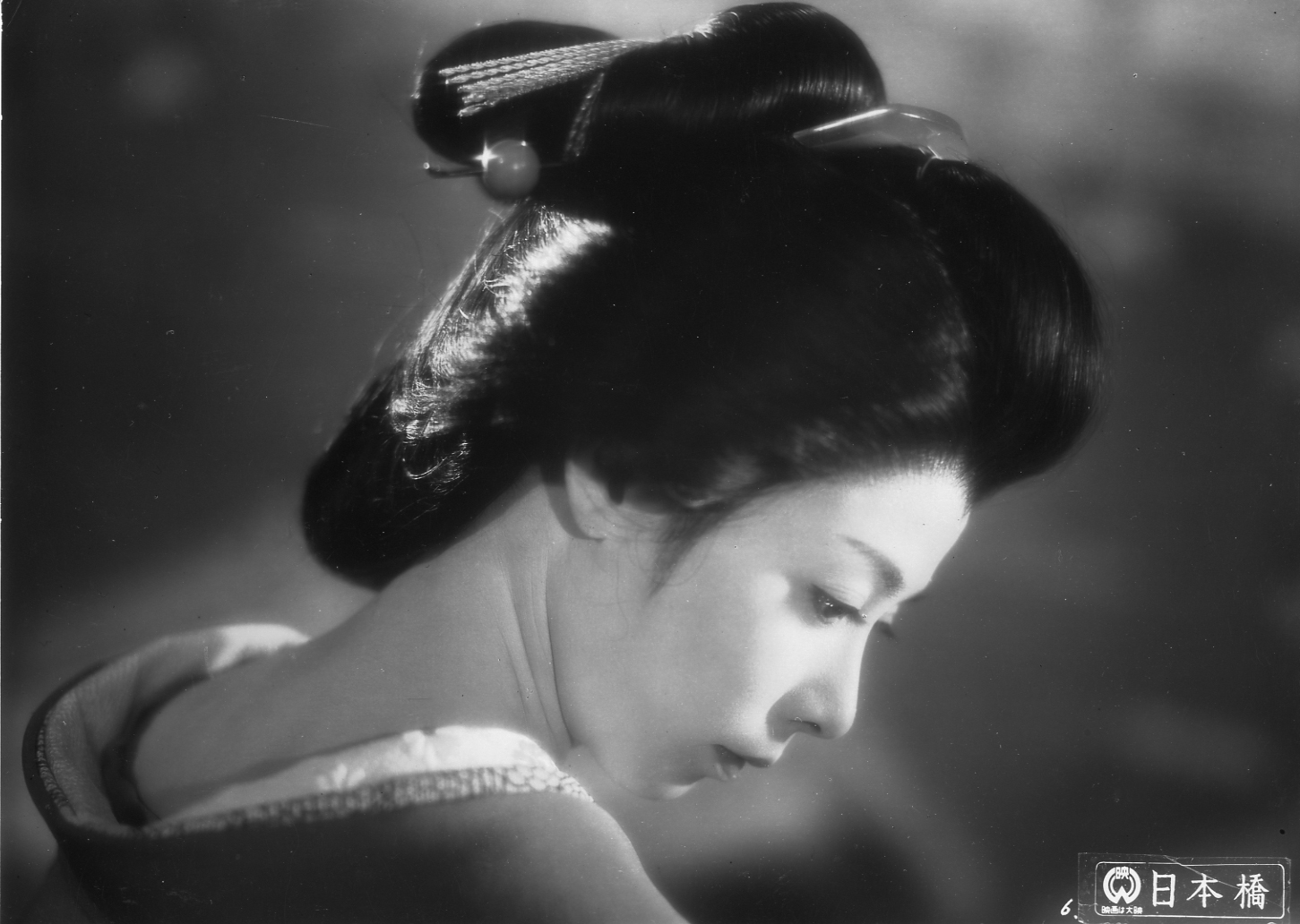 Chikage Awashima in 1956 Japanese movie Nihonbashi(Bridge of Japan).